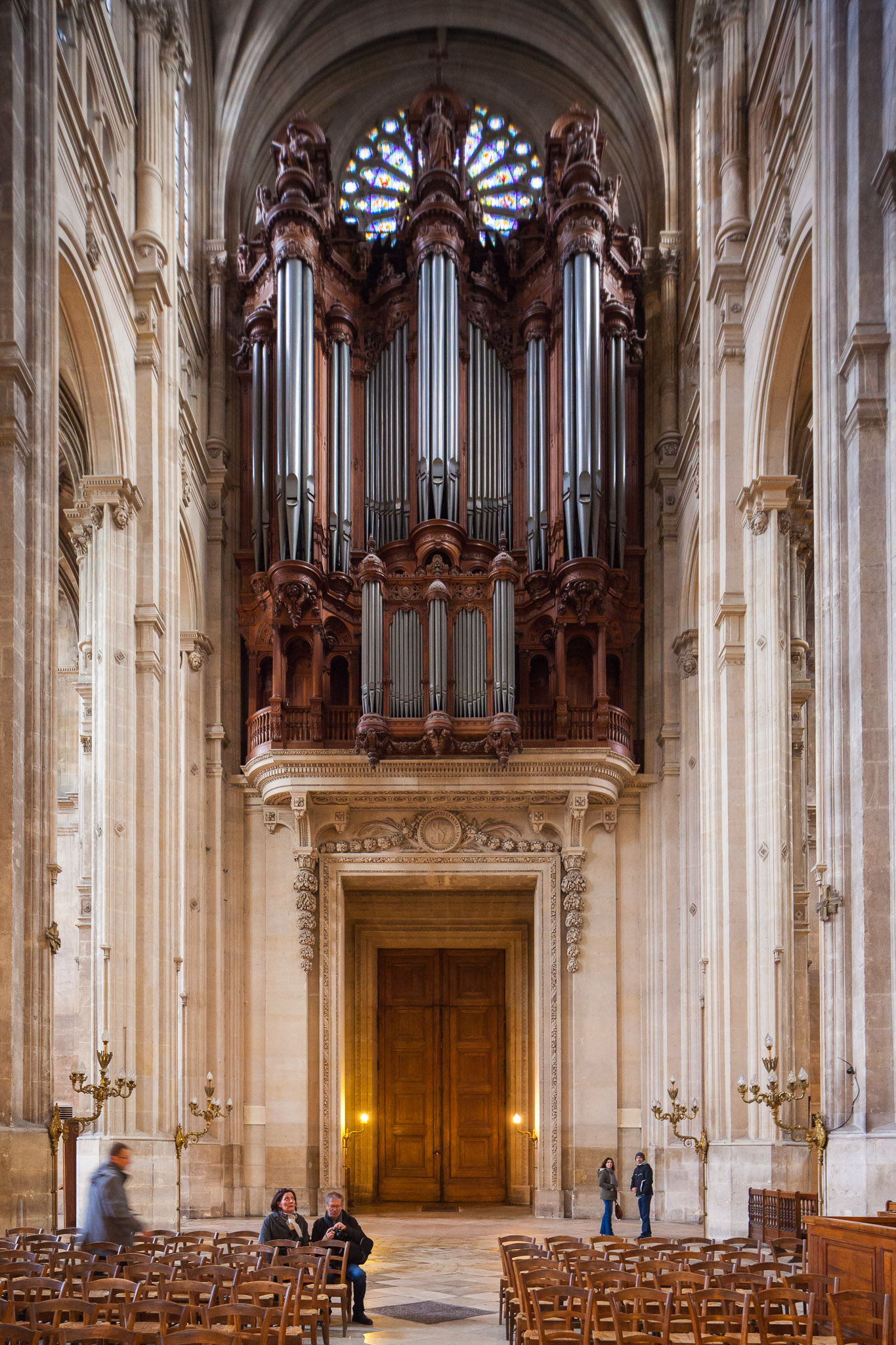 View of the magnificent organ of Saint-Eustache's church in Paris. With 8,000 pipes, the organ is reputed to be the largest pipe organ in France, surpassing the organs of Saint Sulpice and Notre Dame de Paris. See 5D mark II + TS-E 24mm markII, 3200 ISO hand held